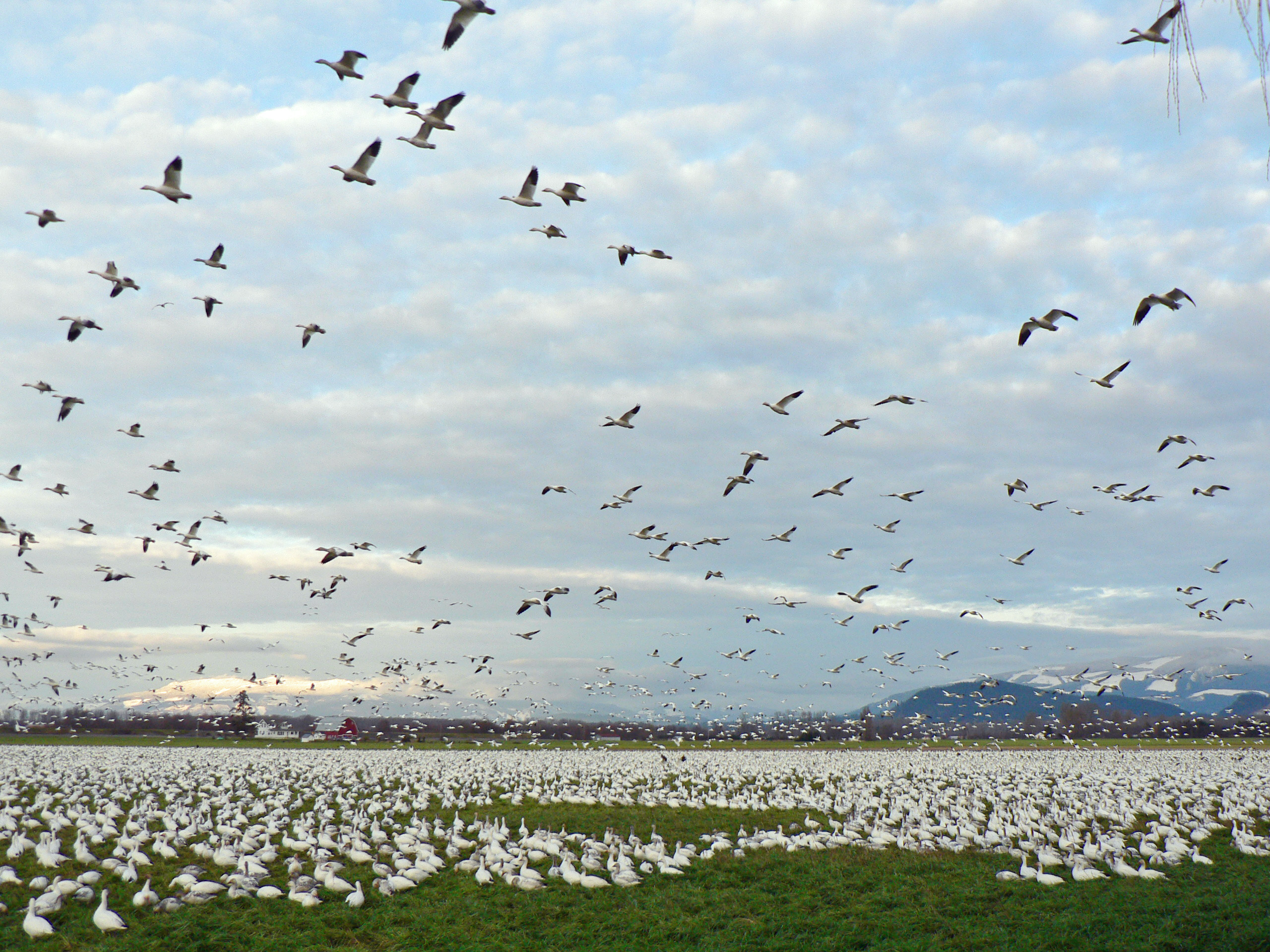 Lesser Snow Goose